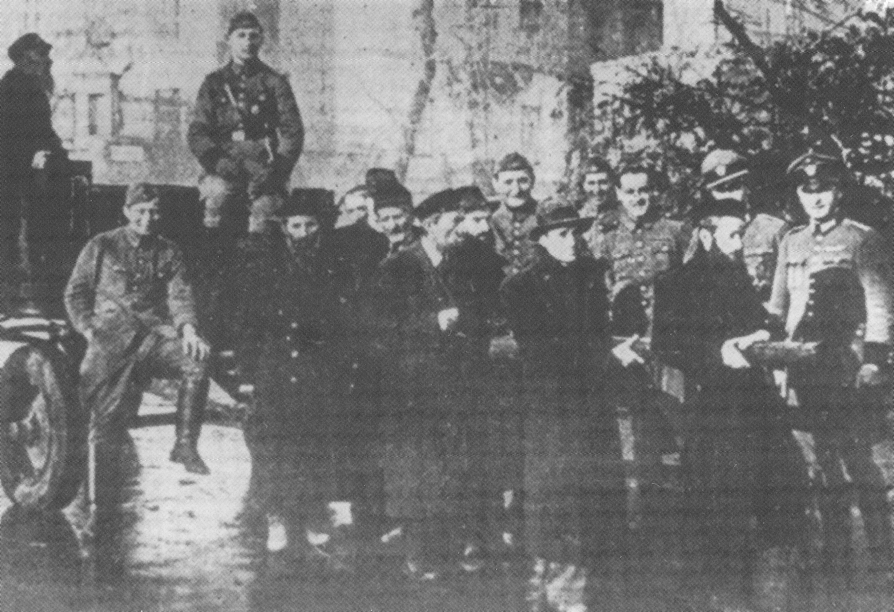 German soldiers posing with the Jews put as horses to a cart in occupied Warsaw